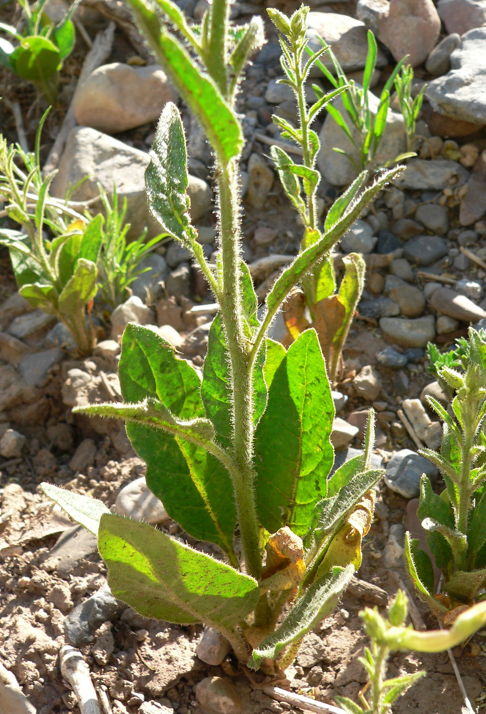 Nicotiana attenuata in Lovell Canyon, Spring Mountains, southern Nevada